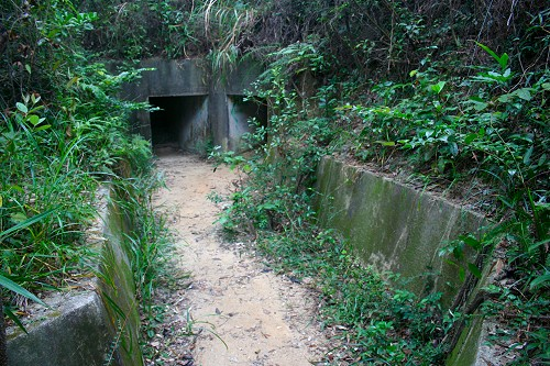 Entry of the galleries from Shing Mun Redoubt, part of the Gin Drinkers Line in Hong Kong